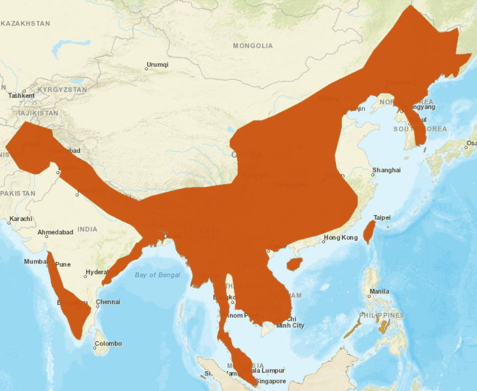 Distribution of Leopard Cat